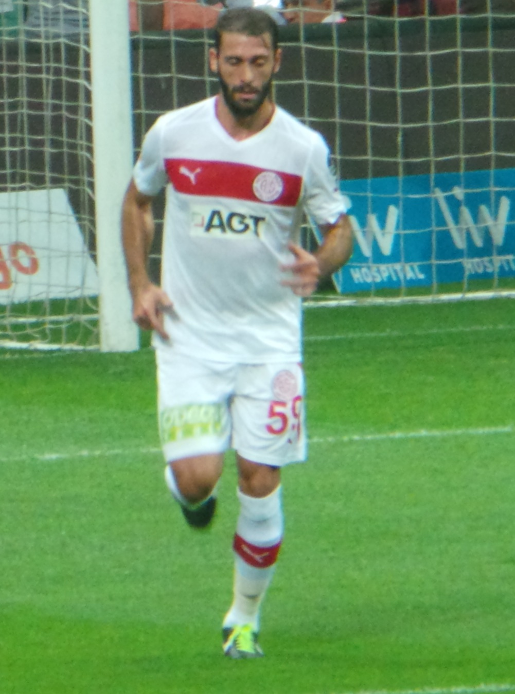 Mehmet with antalya